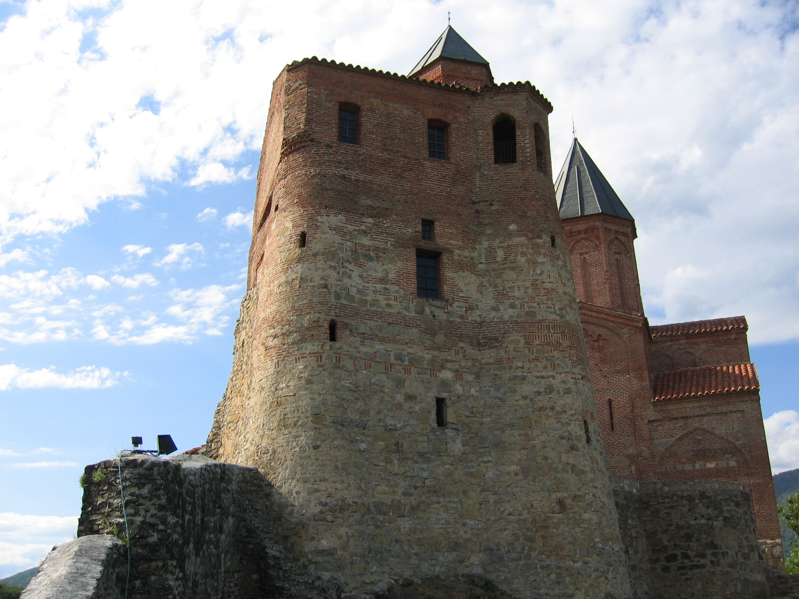 Gremi castle